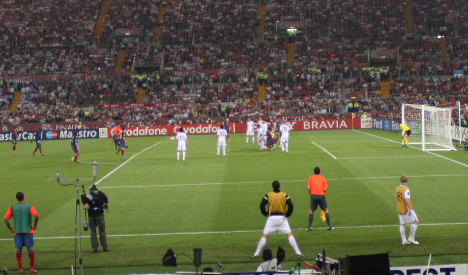 FC Barcelona midfielder Xavi Hernández hits a free kick towards goal in the 2009 UEFA Champions League Final against Manchester United FC.